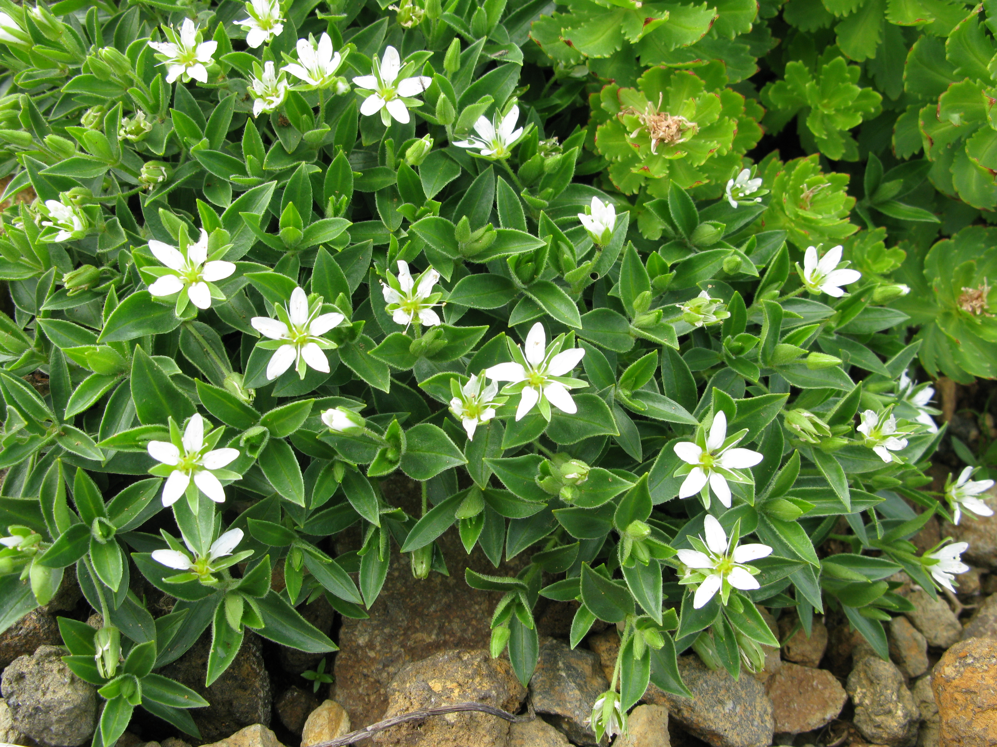 Arenaria merckioides var. chokaiensis, Mount Chōkai, Yamagata pref., Japan